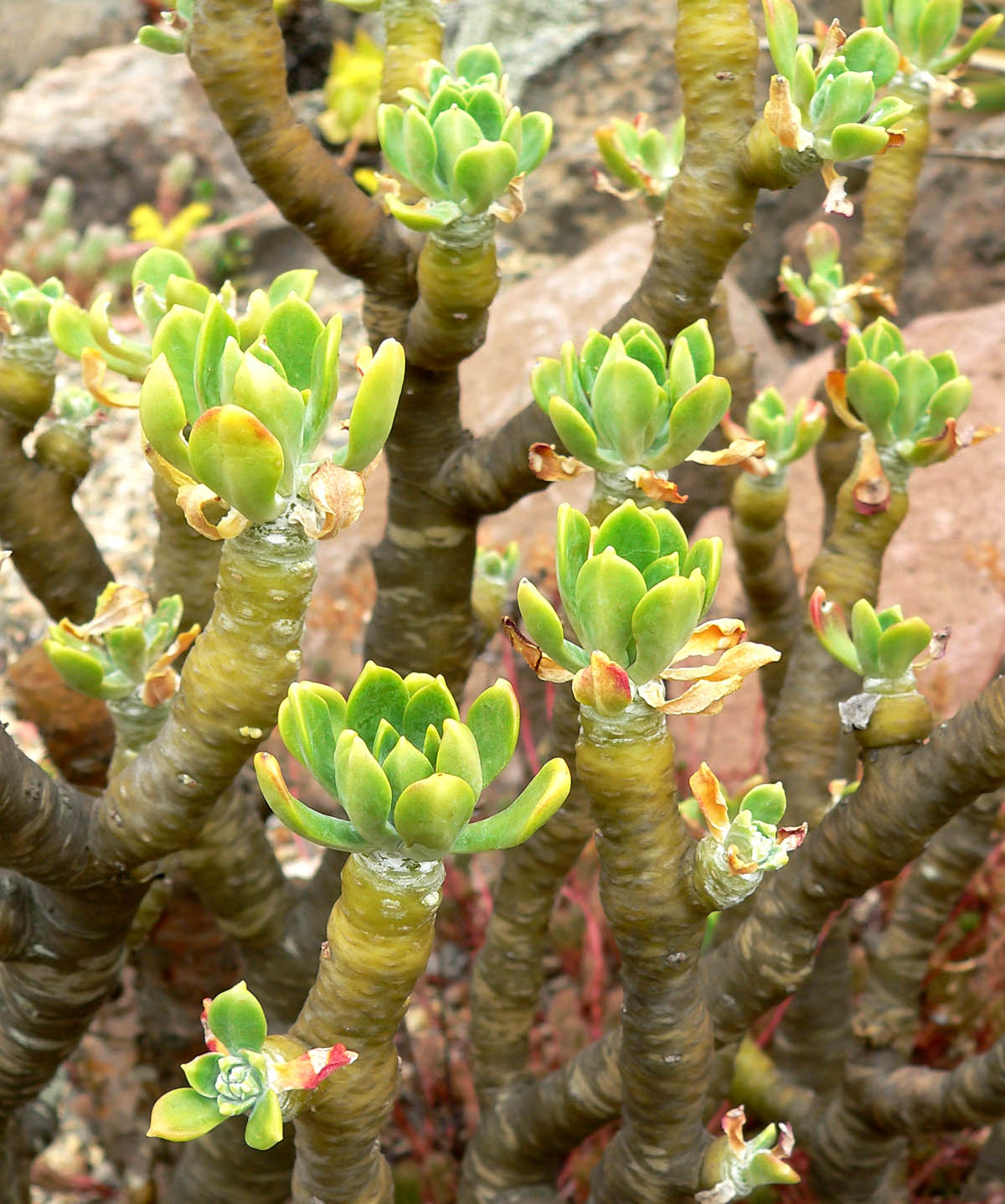 Photo of Sedum torulosum at the University of California Botanical Garden